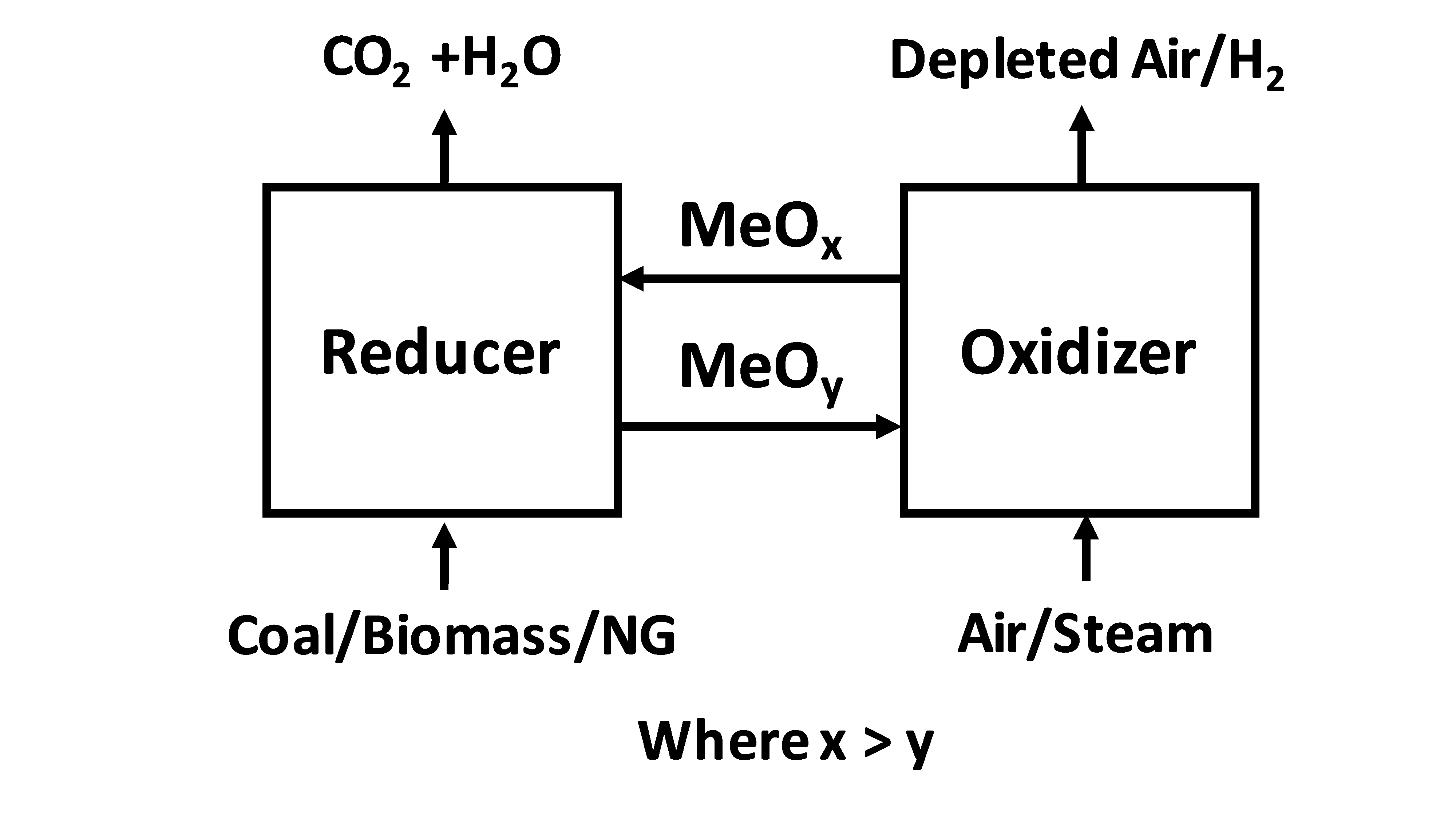 The basic concept of chemical looping combustion process.